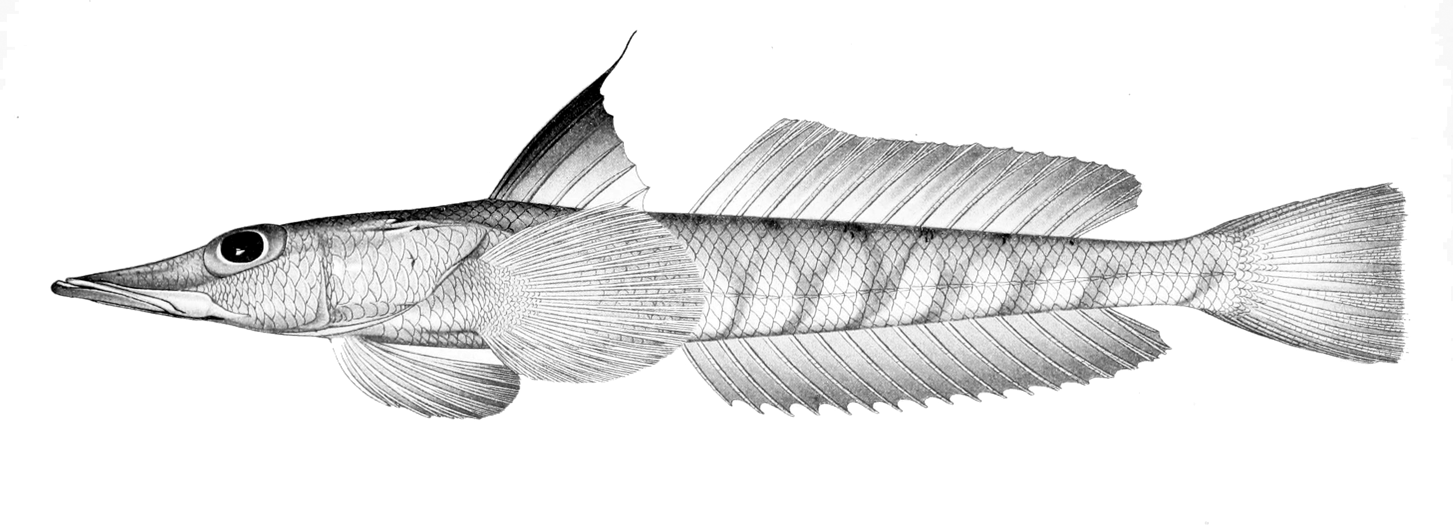 Bembrops filifera